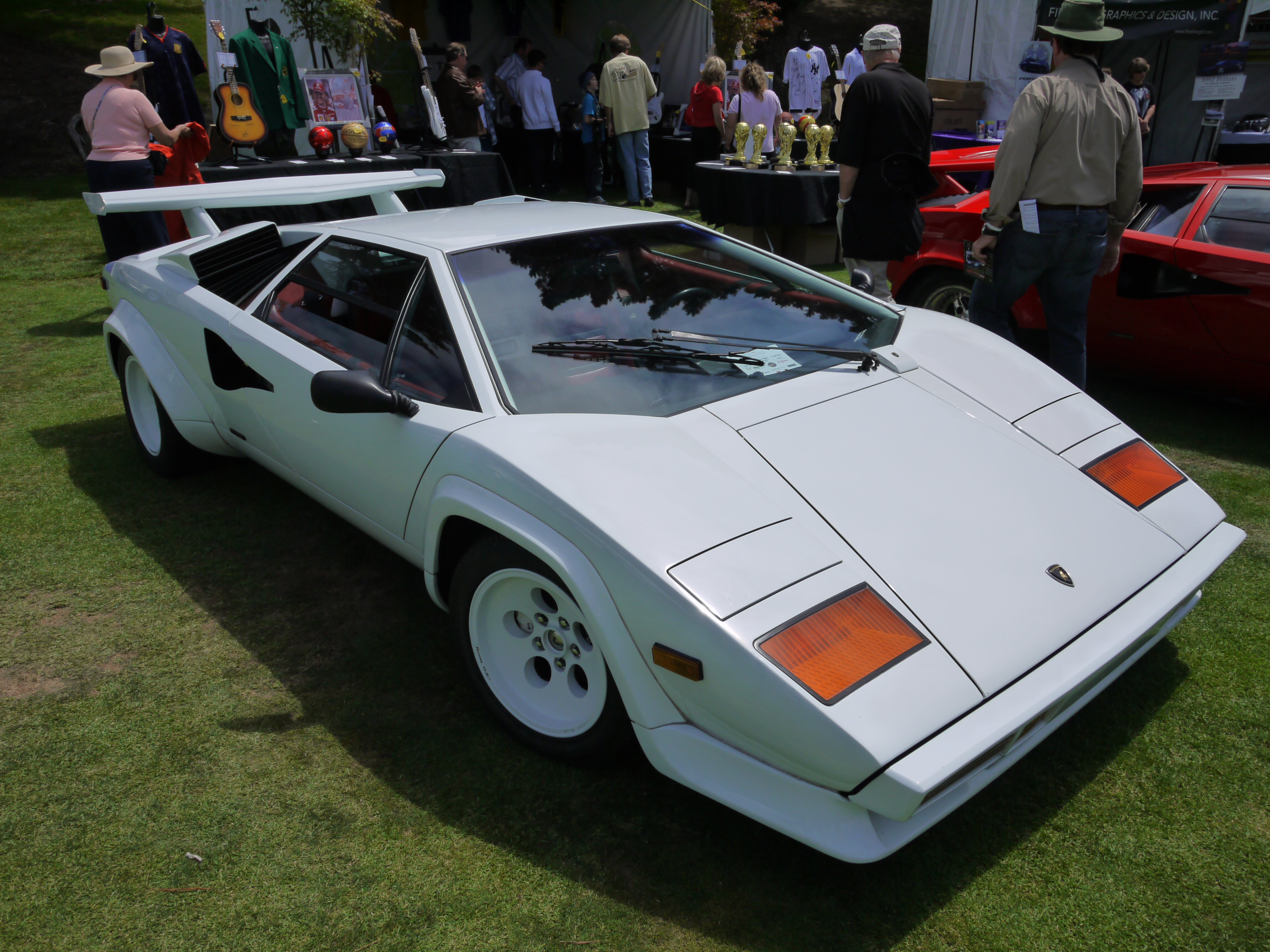 Lamborghini Countach LP5000S Photograph taken at 2010 Concorso Italiano.